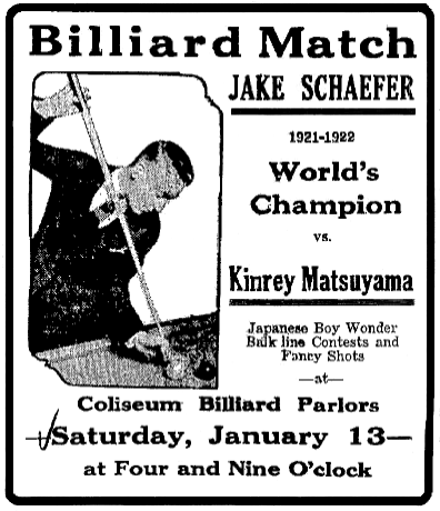 Advertisement for balkline match to be played between Jake Schaefer, Jr. and Kinrey Matsuyama. No copyright symbol included